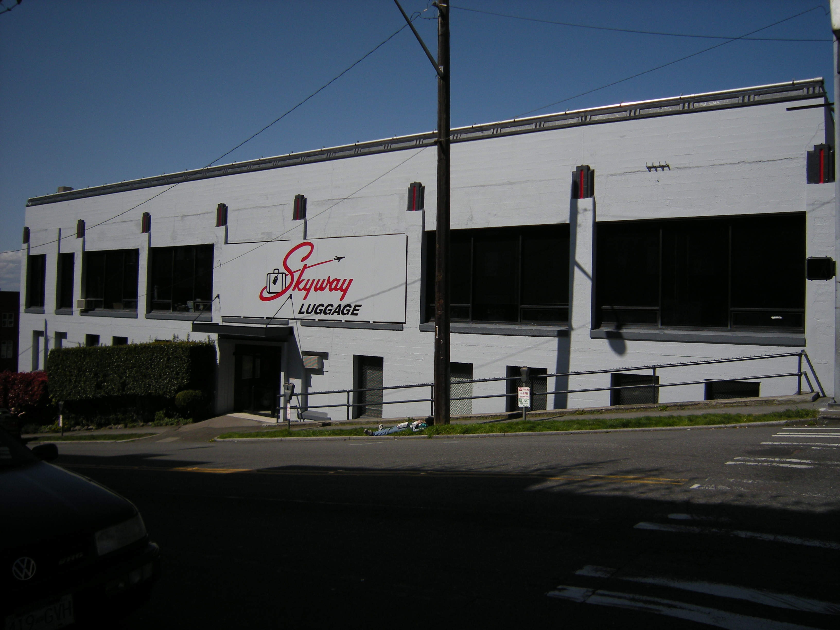 Skyway Luggage, 30 Wall Street, (corner of Western Avenue), Belltown, Seattle, Washington.